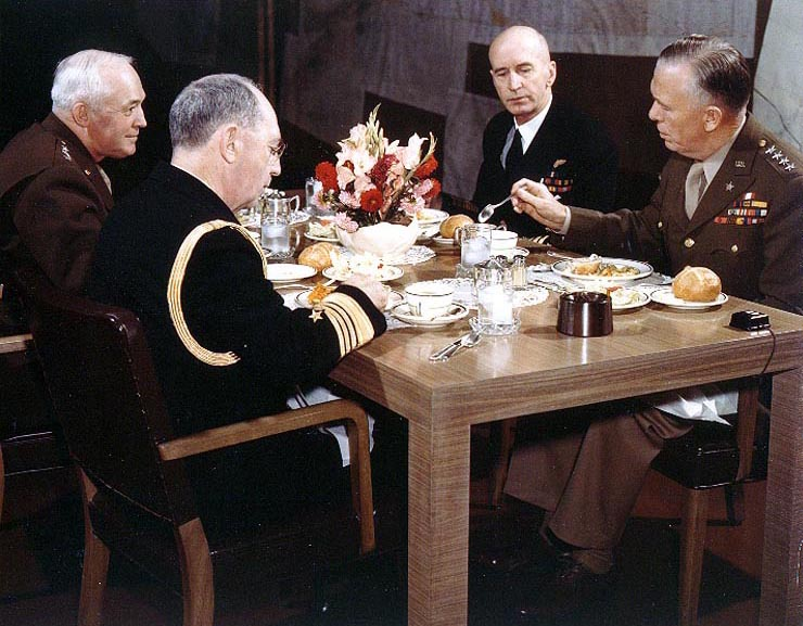 World War II Joint Chiefs of Staff (circa 1943). From left to right are: Gen. Henry H. Arnold, Chief of Staff, U.S. Army Air Forces; Adm. William D. Leahy, Chairman, Joint Chiefs of Staff; Adm. Ernest J. King, Chief of Naval Operations and Commander in Chief, U.S. Fleet; and Gen. George C. Marshall, Chief of Staff, U.S. Army.